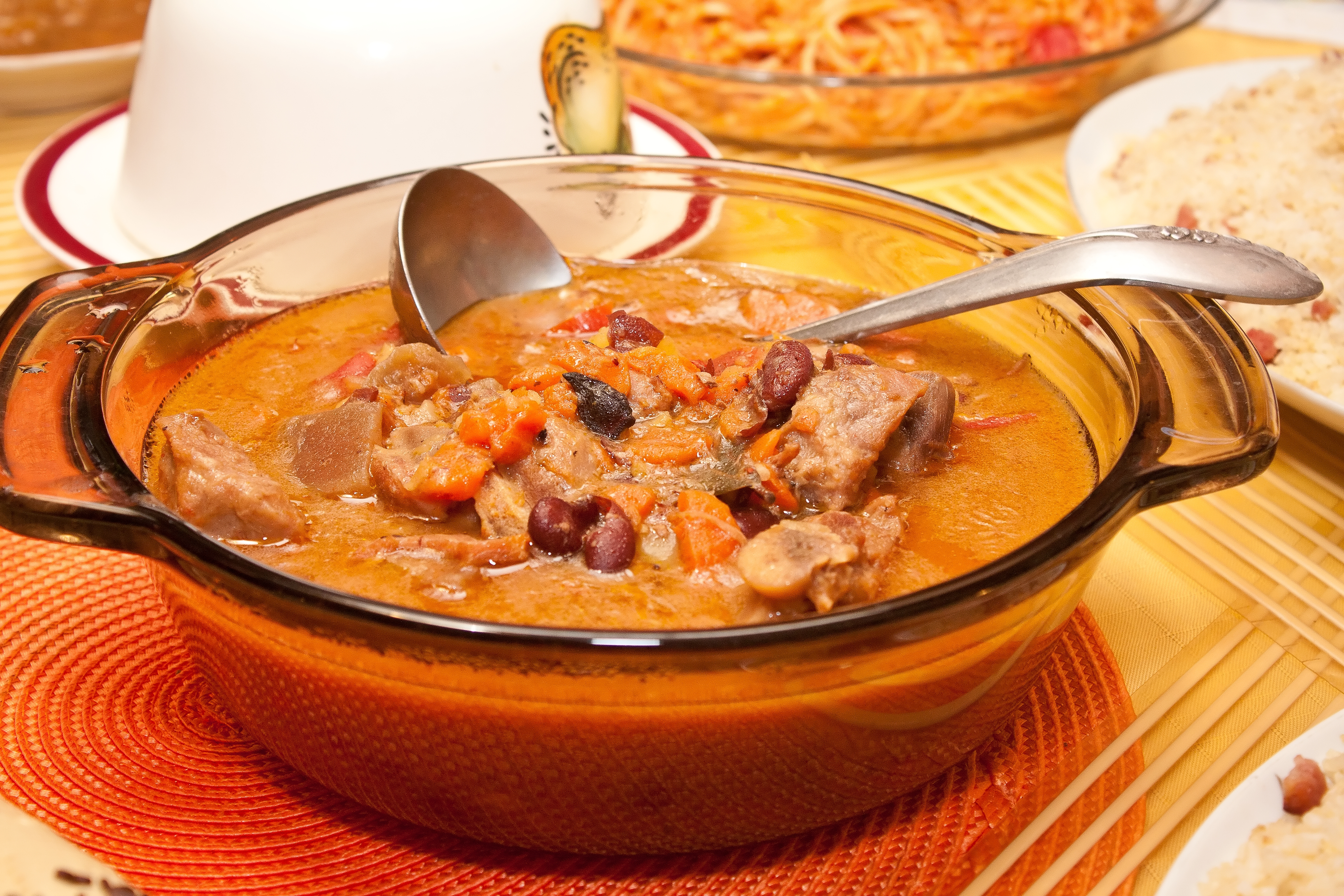 Kaldereta is a dish popular in the Philippines, especially in Luzon island. Its common ingredients are cuts of pork, beef or goat with tomato paste or tomato sauce with liver spread added to it. In Metro Manila it is more commonly added with potatoes but in other regions such as Southern Tagalog provinces, it is simply the sauce and the cuts of meat that are used. There are other meats that can also be used such as chicken but pork, beef and goat are the three more popular cuts of meat used.